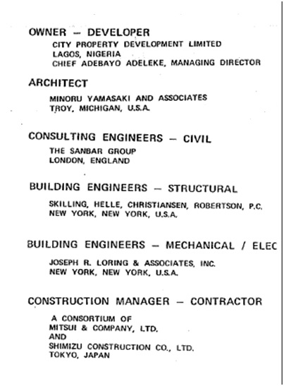 Lagoon City Project Participants